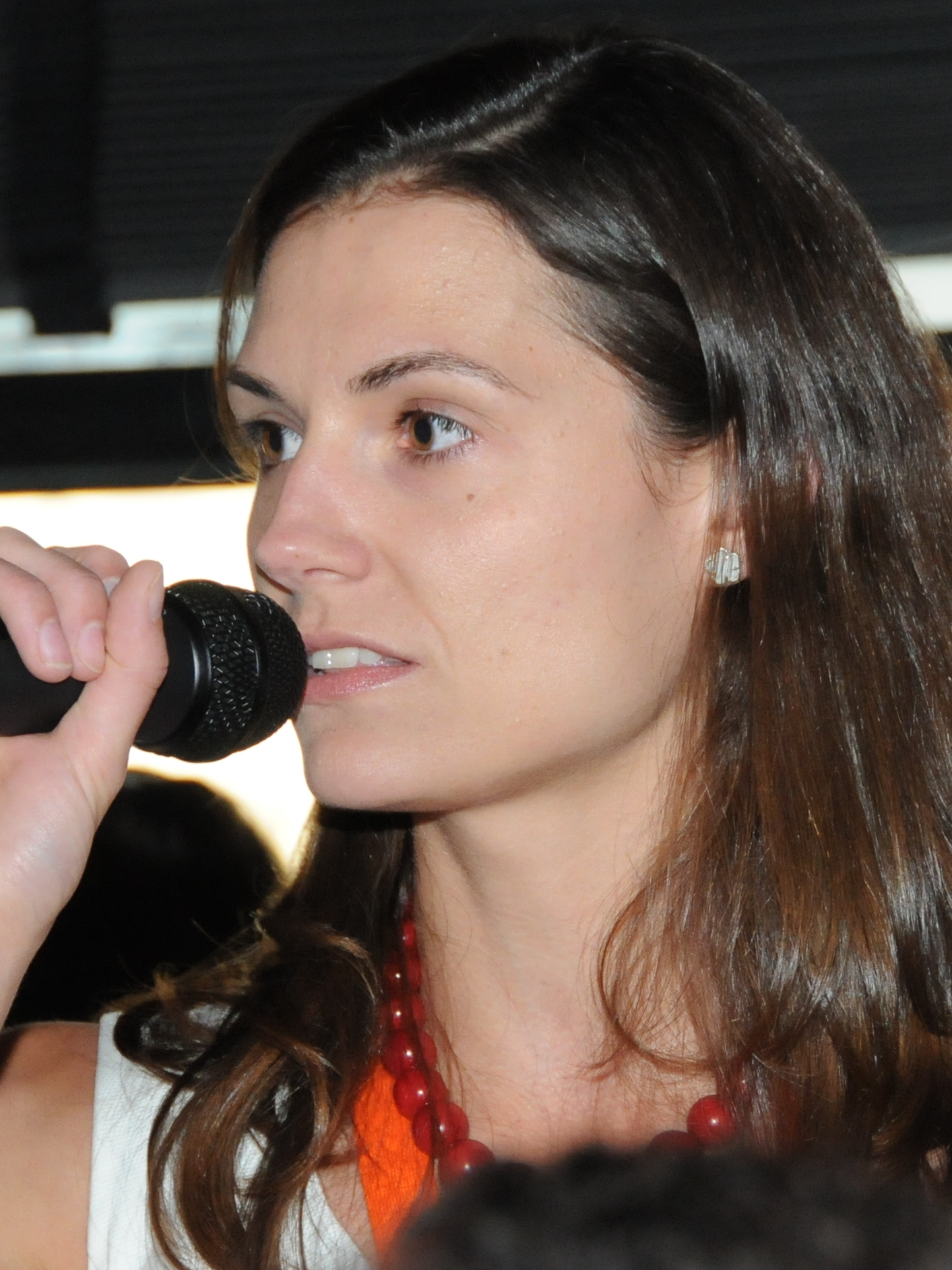 Krystal Ball (D), candidate for US House in VA-01.